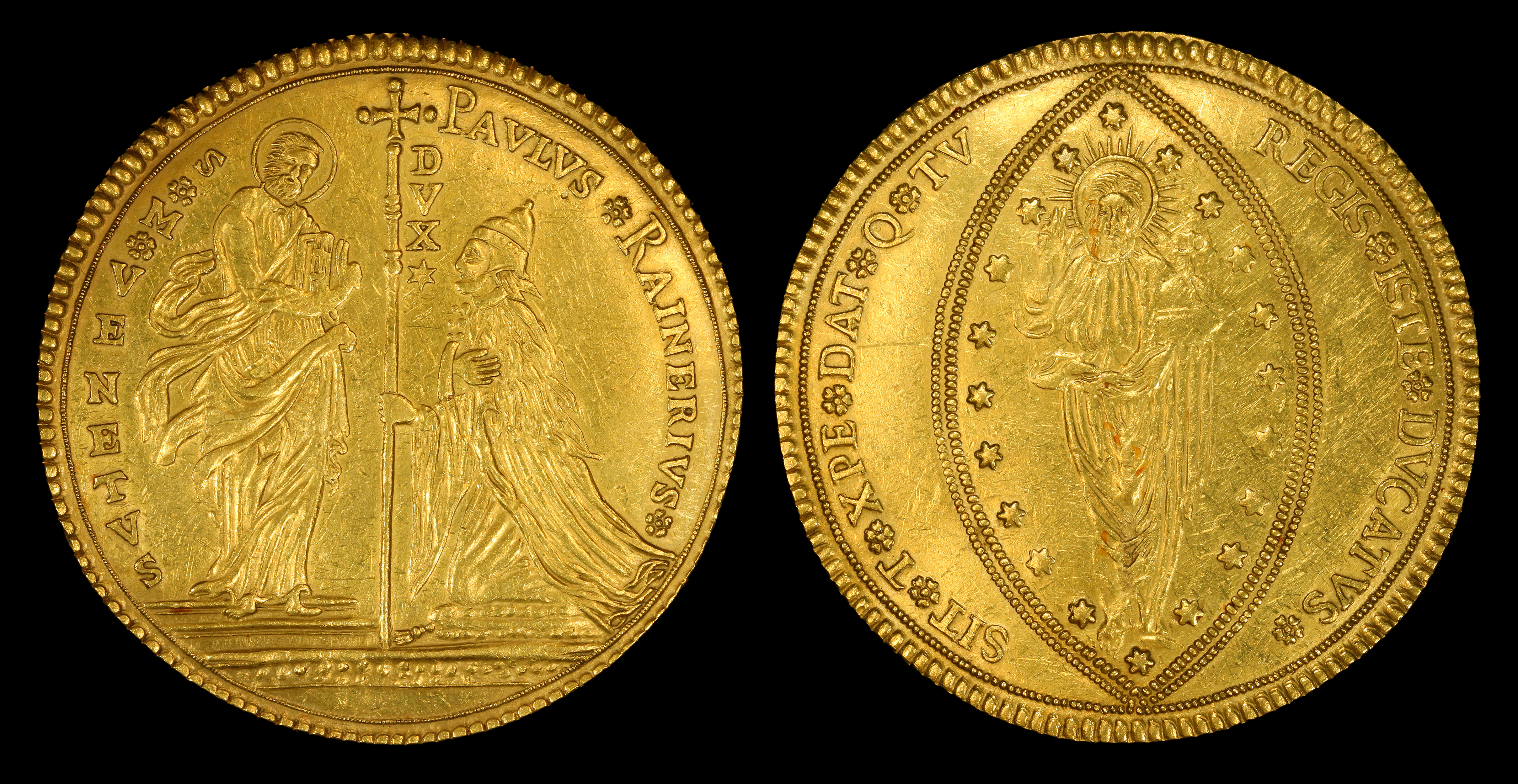 Italian States, Republic of Venice, 50 Sequin or Zecchini (c. 1779–89) struck during the reign of Paolo Renier, the penultimate Doge of Venice. The name was derived from the Zecca of Venice. It has a diameter of 76mm and weighs 192.5g